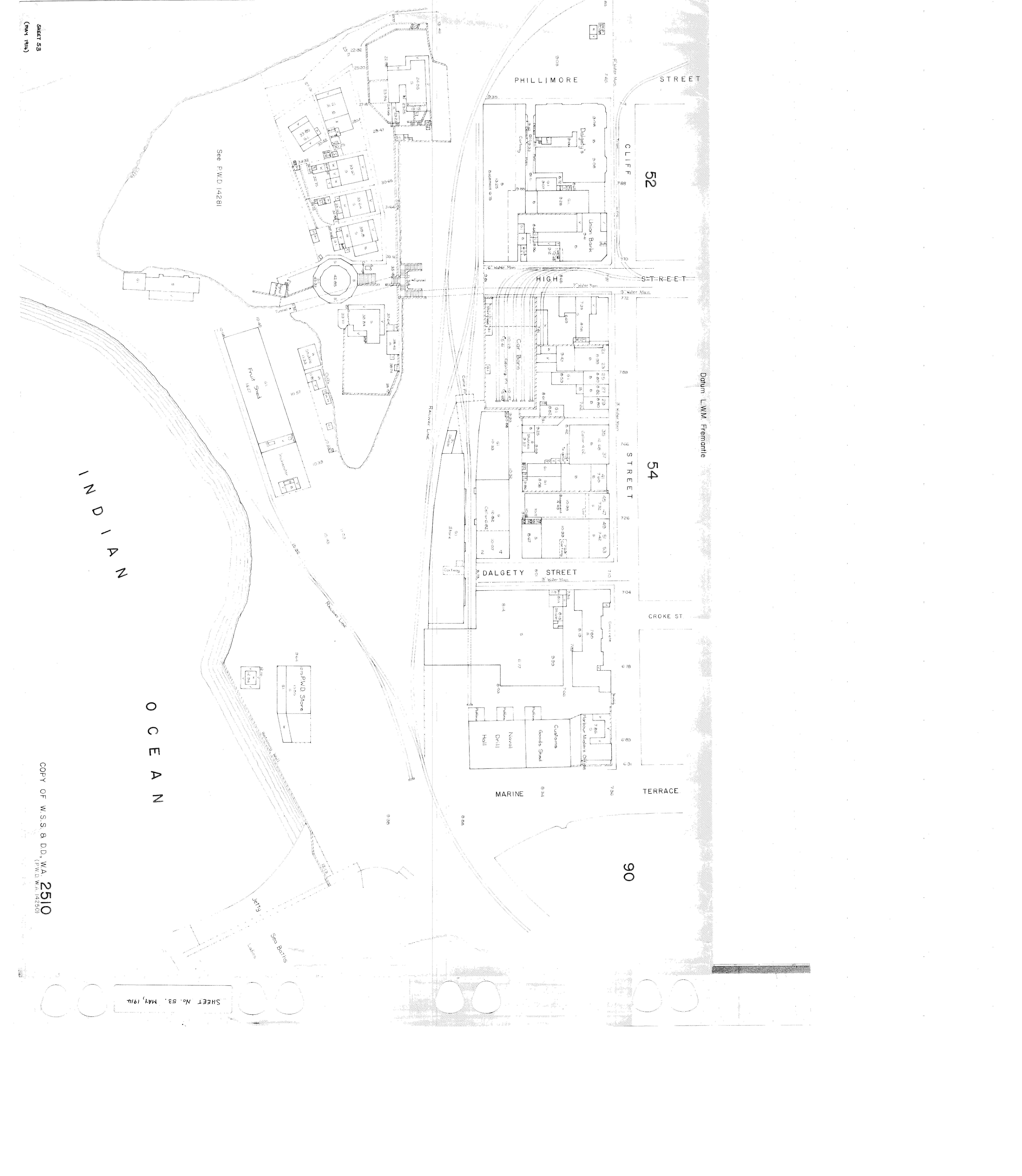 sheet number 53: Map of Arthur Head area Fremantle, including west side of Cliff Street High Street west of Cliff st intersection. Notable features are The Round House, Tram sheds, Long Jetty, Old Kerosene store.to the east sheets 52, 54 & 90, to the North is the Swan River, West and South is Ocean